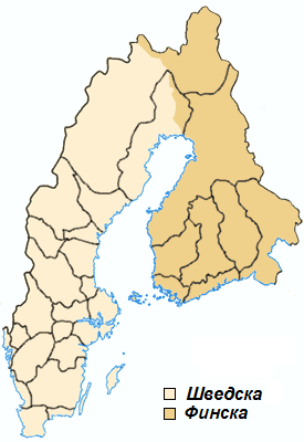 Map of the historical provinces of Sweden and Finland in Macedonian.